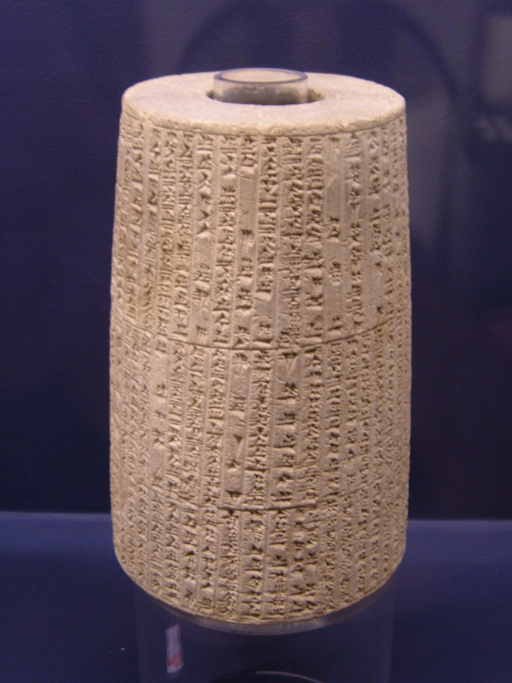 Clay barrel cylinder describing one of Nebuchadnezzar II's building projects (Neo-Babylonian Period) on display at the Rosicrucian Egyptian Museum in San Jose, California. RC 1780